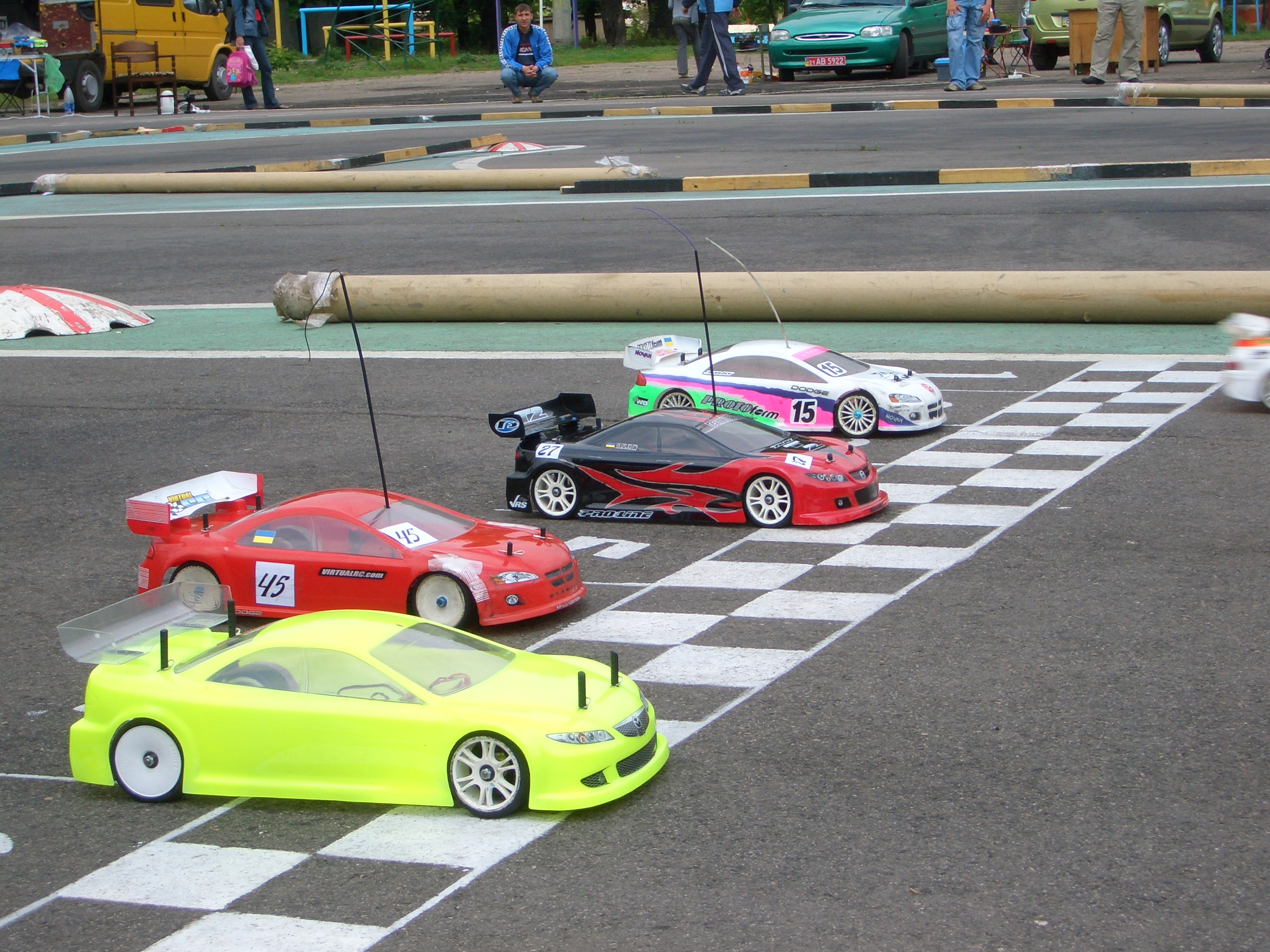 RC cars ready to start